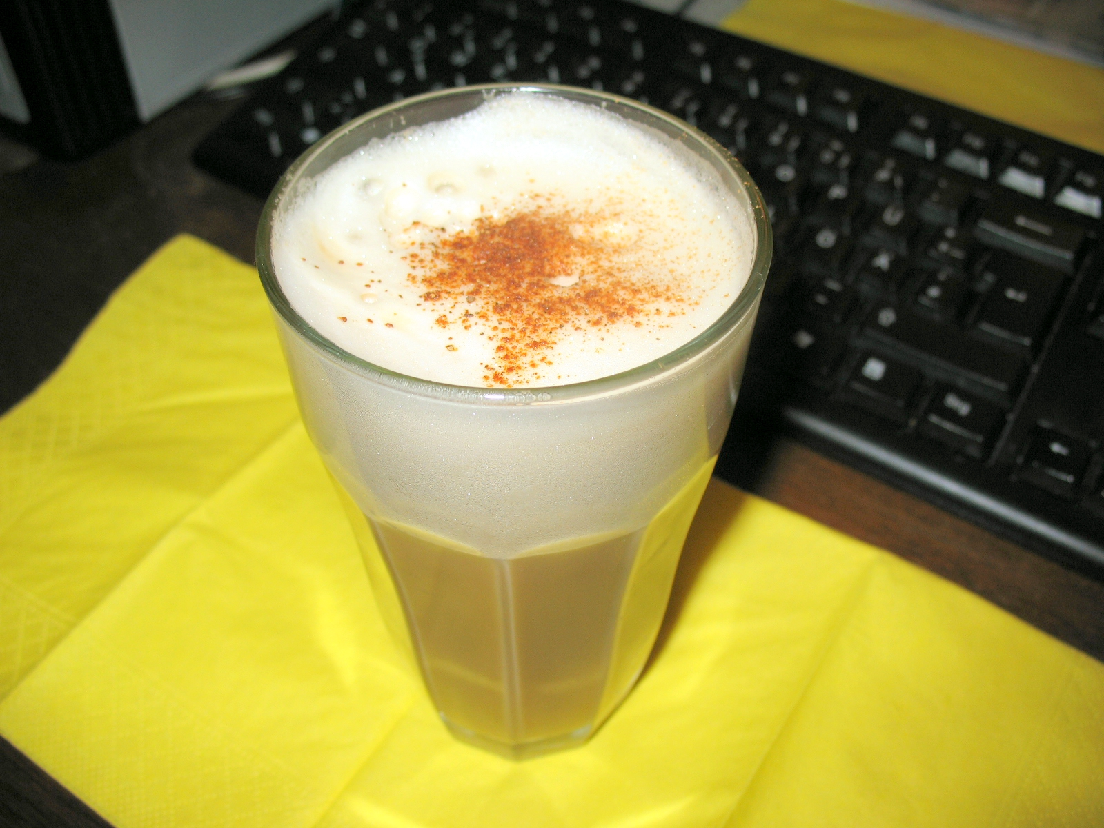 Greek Café Frappé prepared with soy milk and topped with cinnamon